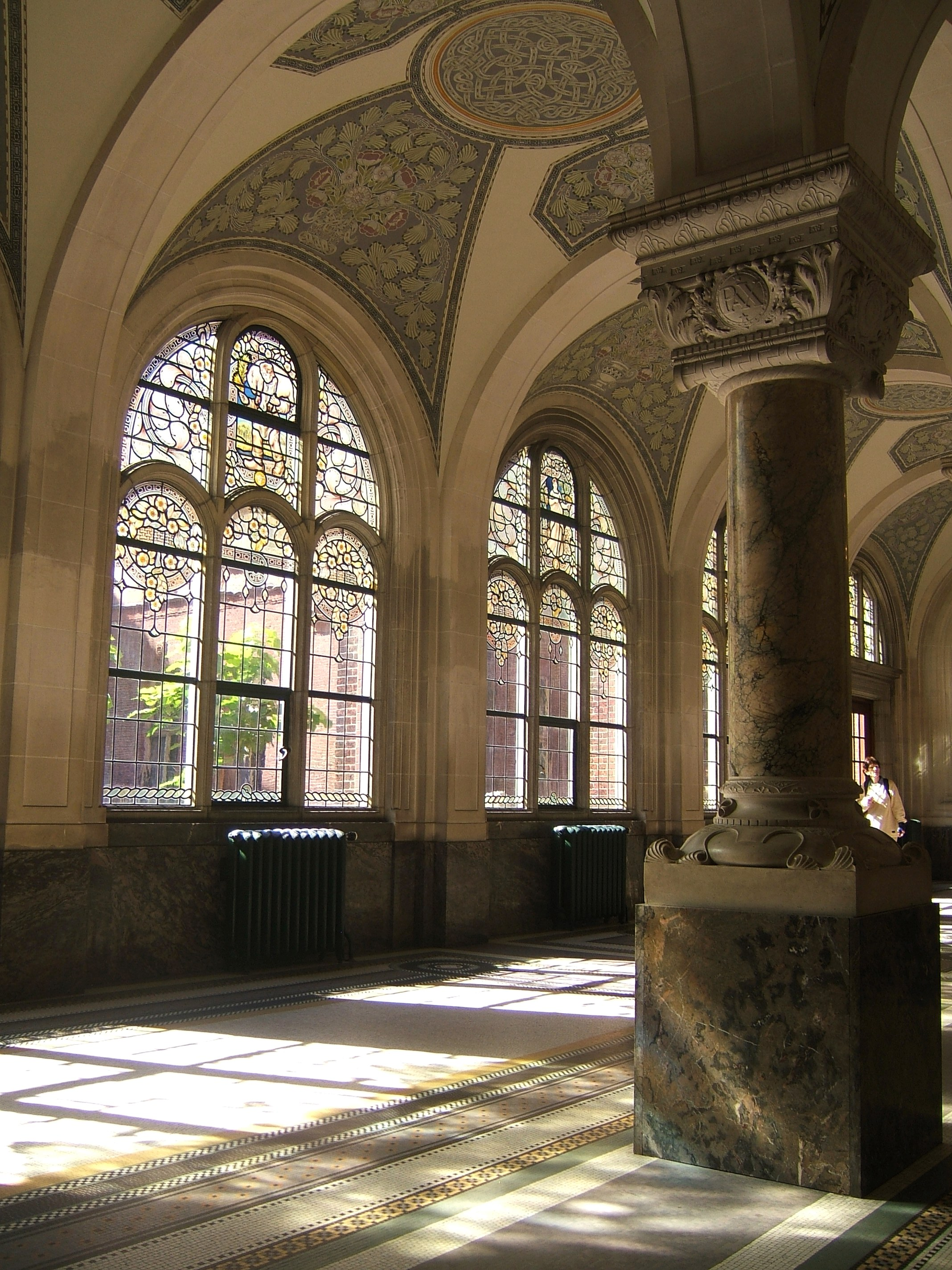 Peace Palace's hall in Den Haag at European Heritage Open Days.